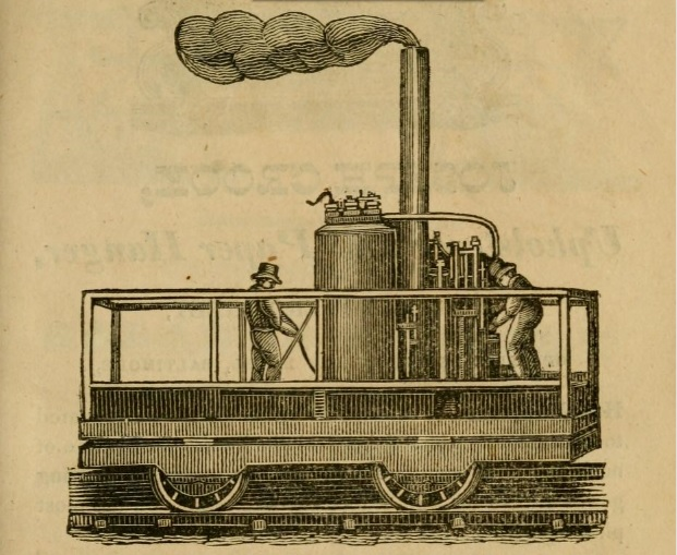 1831 depiction of a steam engine (likely Tom Thumb (locomotive) from Baltimore, Maryland